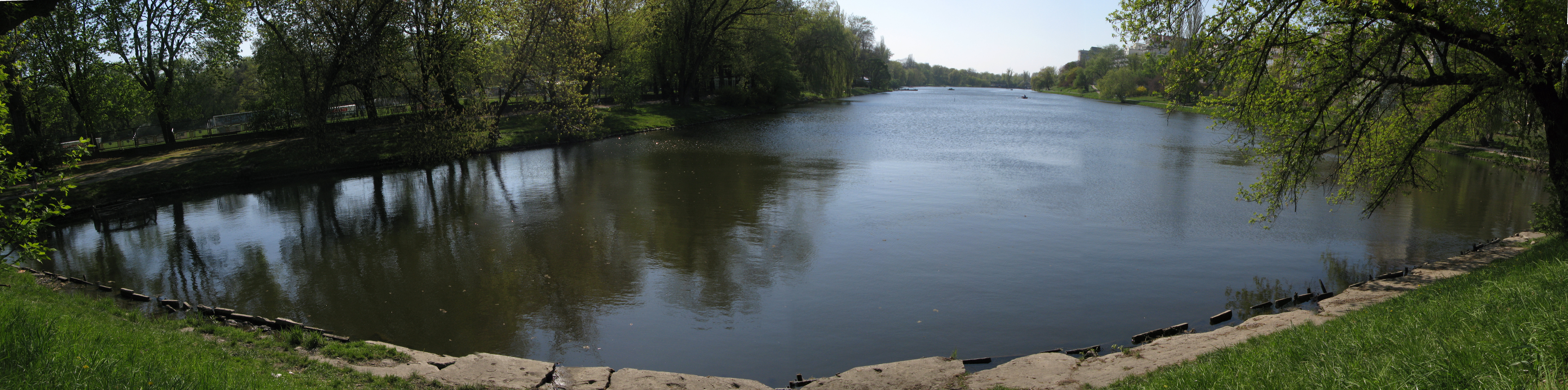 Lake in Warsaw